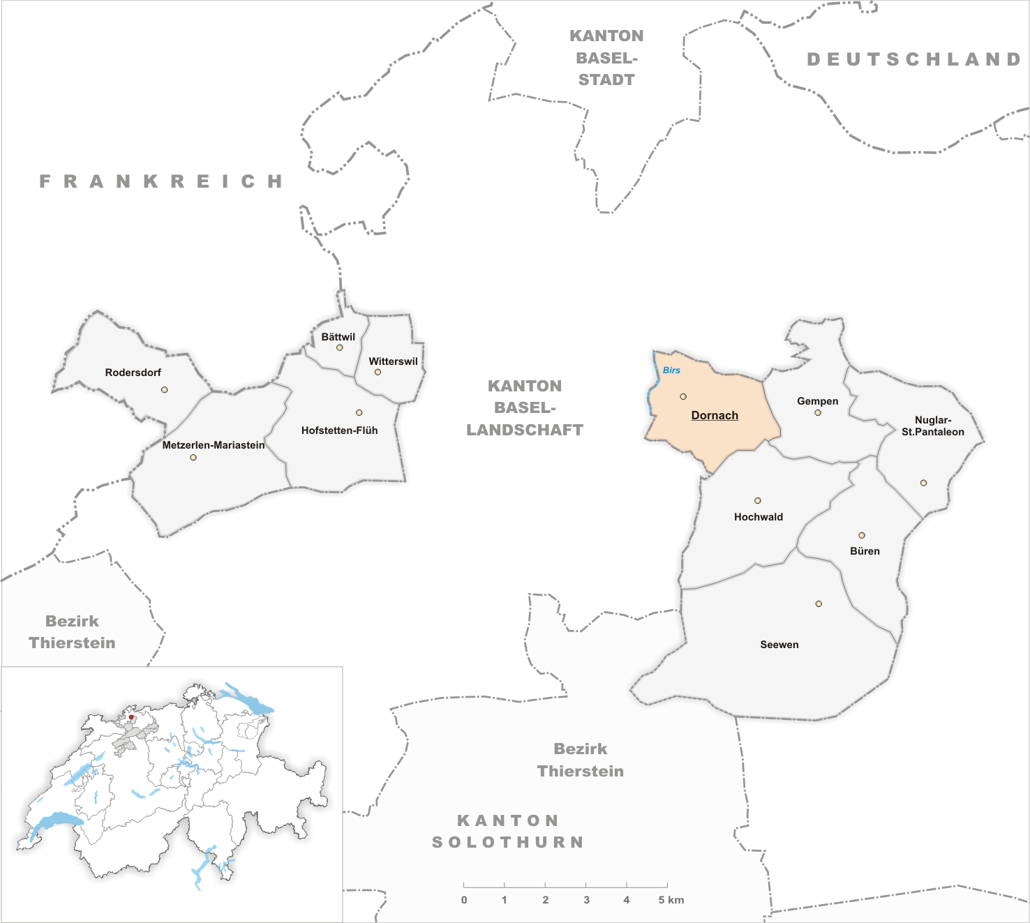 Municipality Dornach in the district of Dorneck.